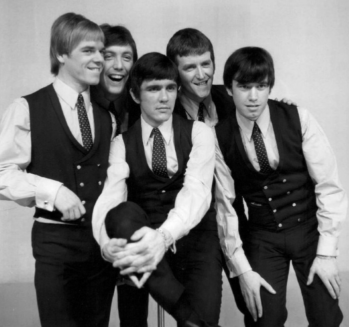 Publicity photo of the musical group The Dave Clark Five from an appearance on The Ed Sullivan Show.